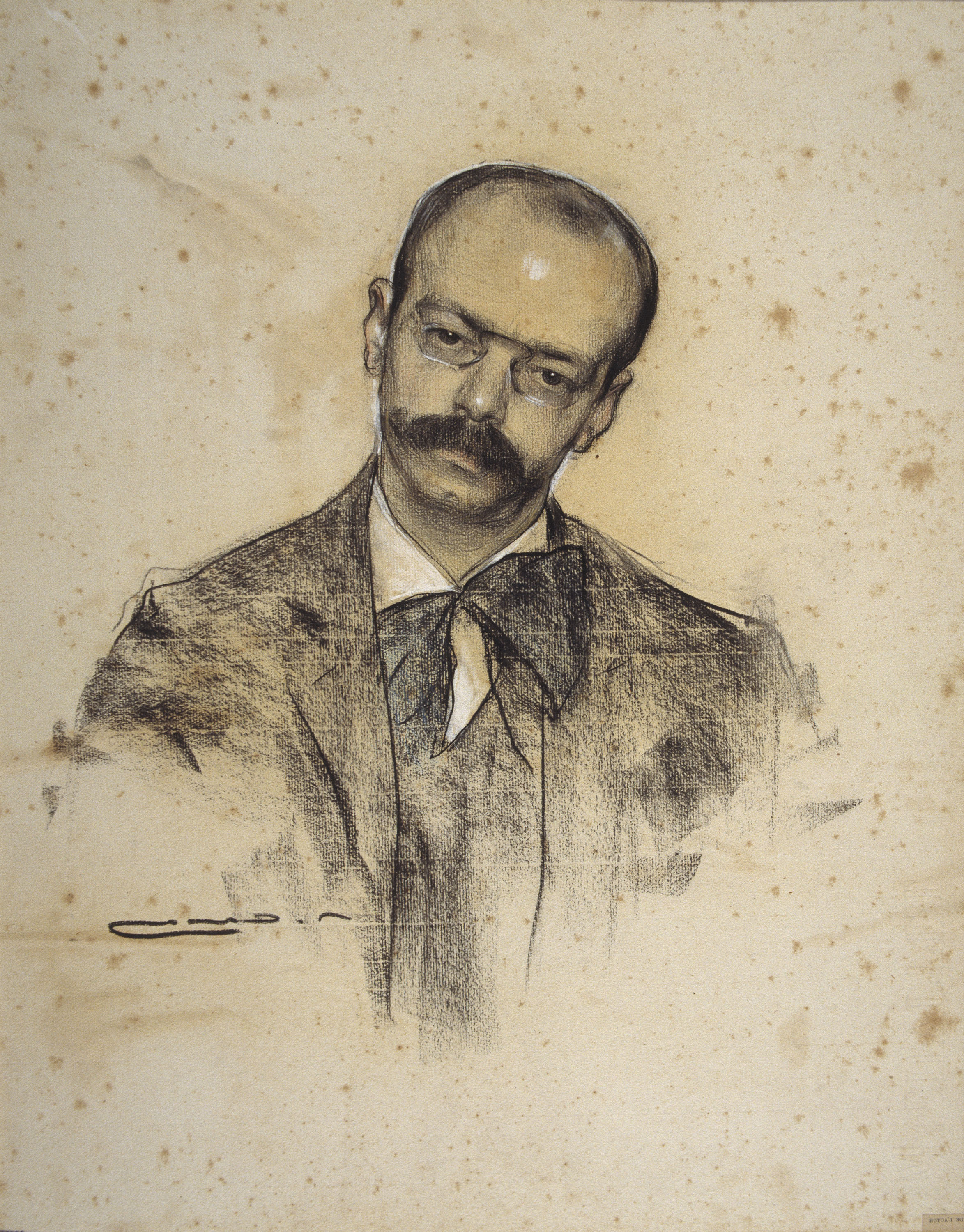 Portrait by Ramon Casas conserved at MNAC in Barcelona.